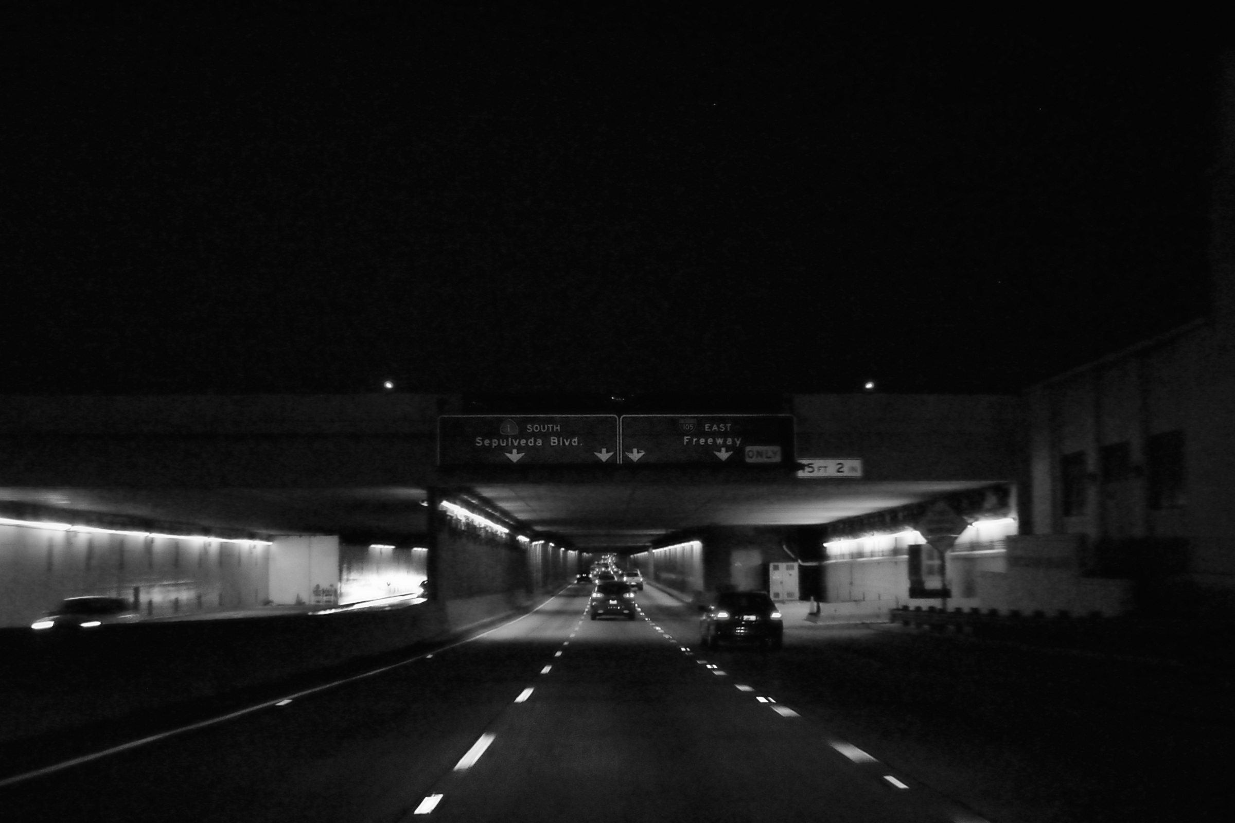 CA1sRoadNight-TunnelLAX-BW